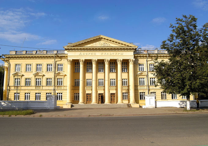 Cultural center by Said-Galiev on Derbyshki square in Derbyshki locality in Kazan